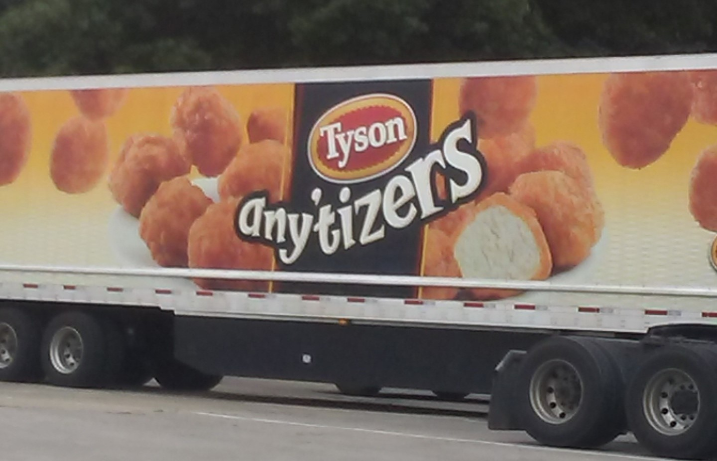 Tyson Foods is the largest employer in the area